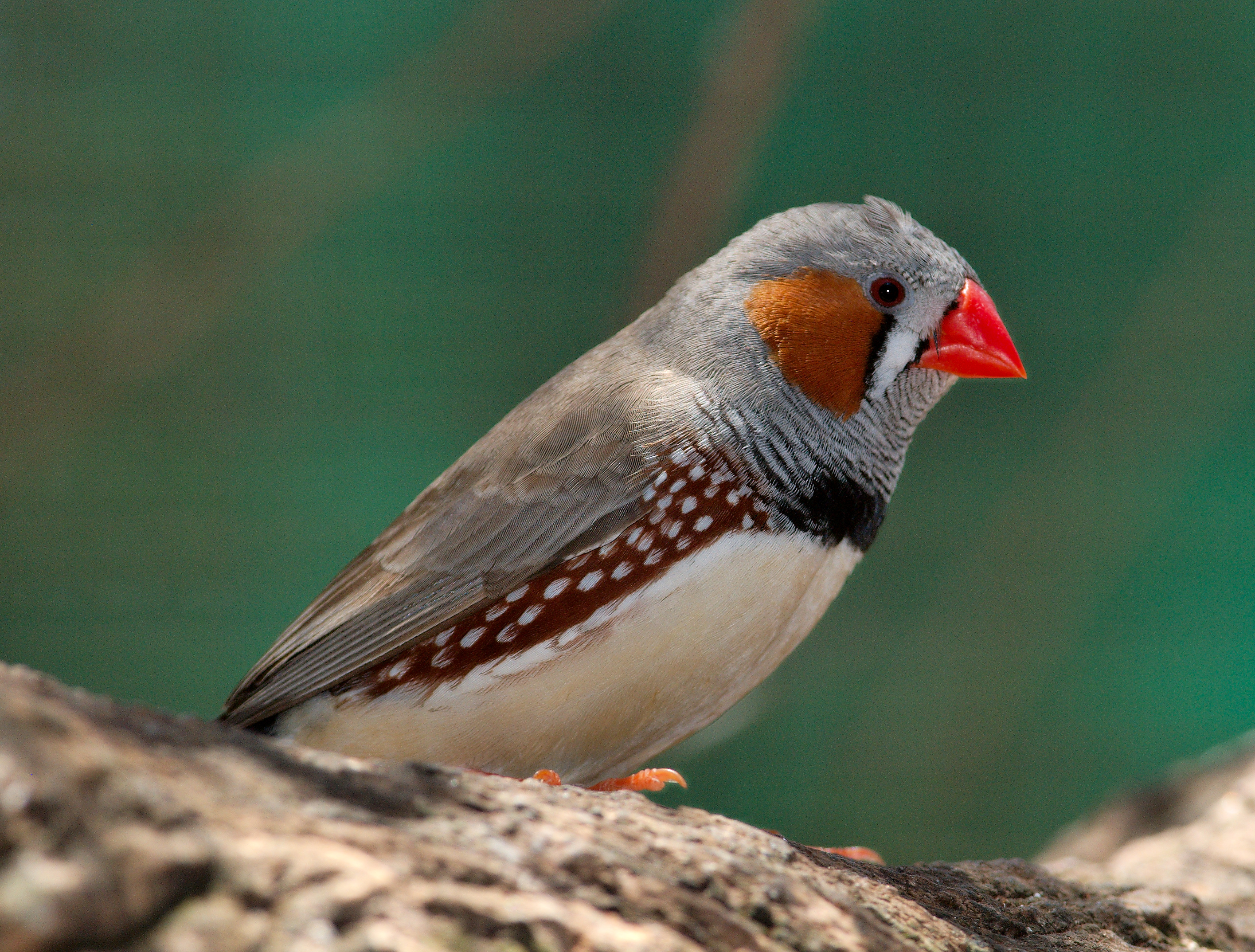 A Zebra Finch at Dundee Wildlife Park, Murray Bridge, South Australia.